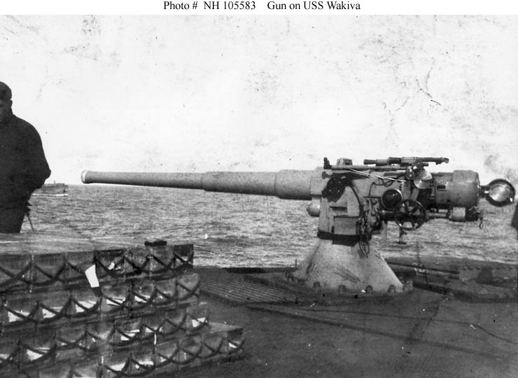 A 3-inch (76.2-millimeter) gun aboard United States Navy patrol vessel USS Wakiva II (SP-160) in 1917-1918